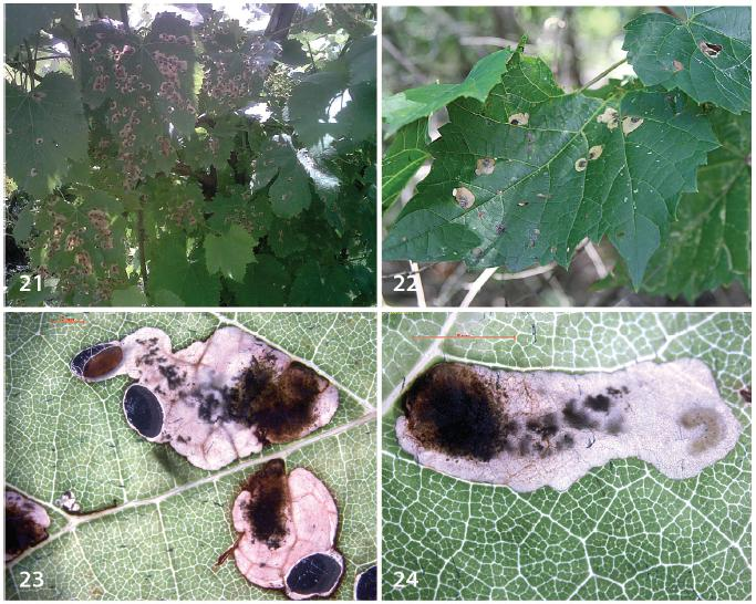 Antispila oinophylla, mine: 21, 23, 24 Italy, Borgo Valsusana, Vitis vinifera, 25.vi.2009 22 USA: Vermont, Button Bay SP, Vitis riparia